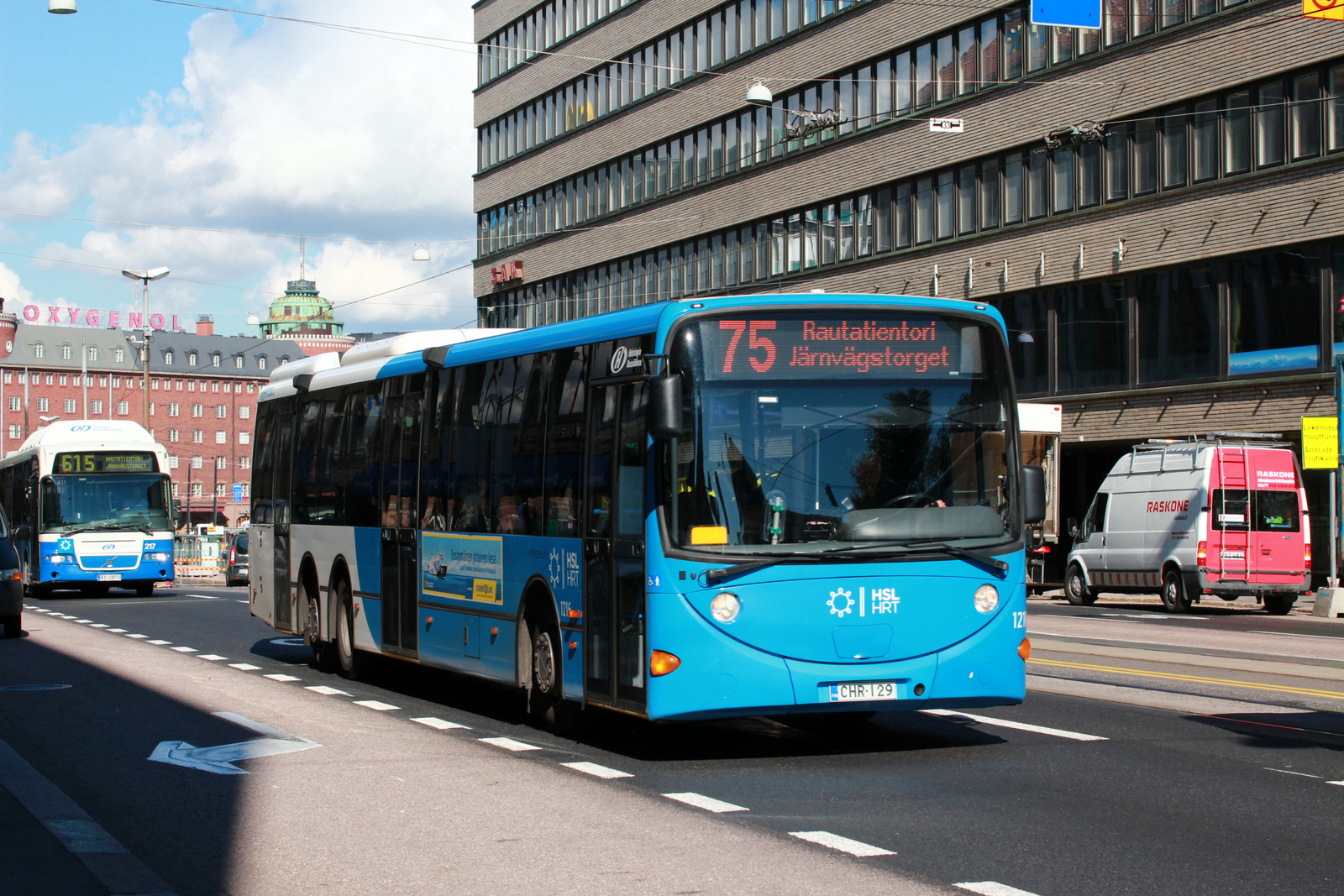 Helsingin Bussiliikenne bus #1216 (Scania K280UB tri-axle chassis with Lahti Scala bodywork) on HRT Helsinki internal bus line 75. The bus is in HRT colourscheme, which is a requirement for all new buses in tenders.